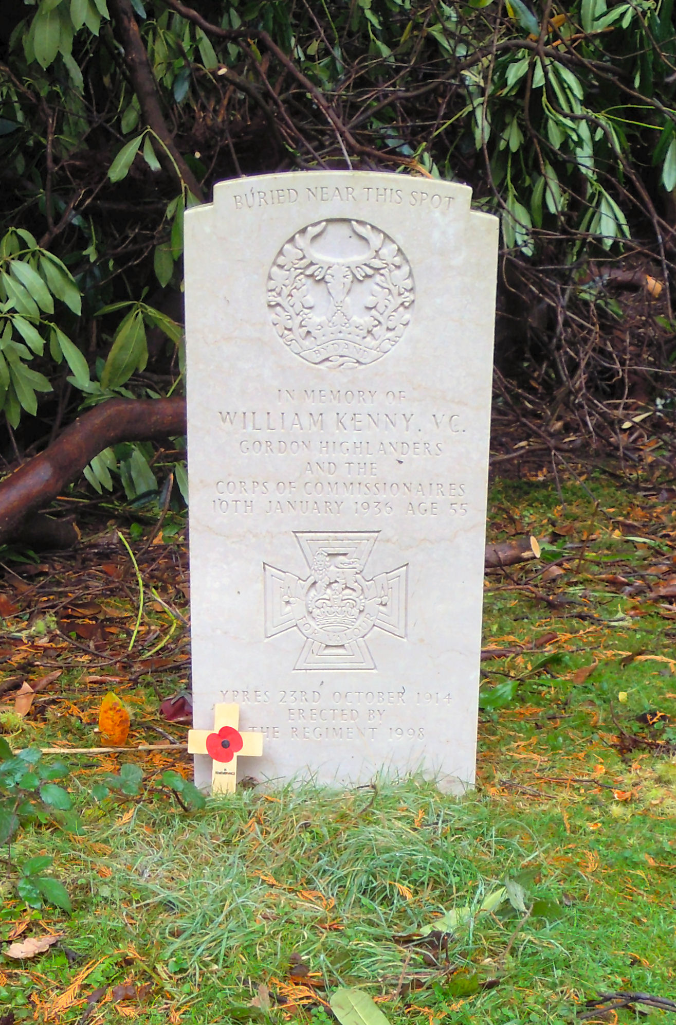 Monument to William Kenny (VC) in the Corps of Commissionaires section of Brookwood Cemetery, Brookwood, Surrey